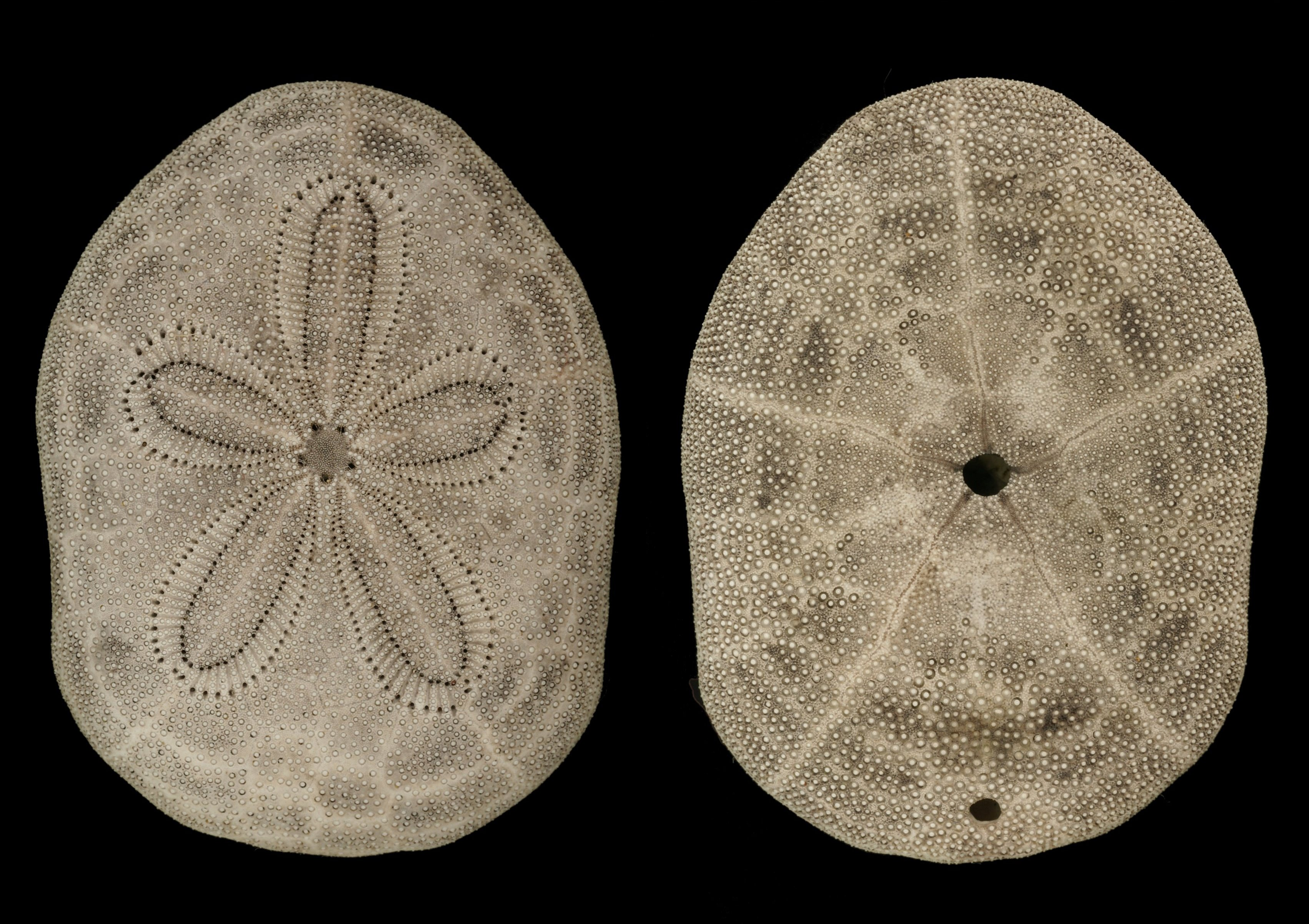 Test of the sand urchin Clypeaster reticulatus found on the beach of Saint-Pierre (Réunion island) : upper side (left), lower side (right) (length = 6.2cm / 2.44" - width = 4.5cm / 1.77" - thickness = 1.2cm / 0.47")